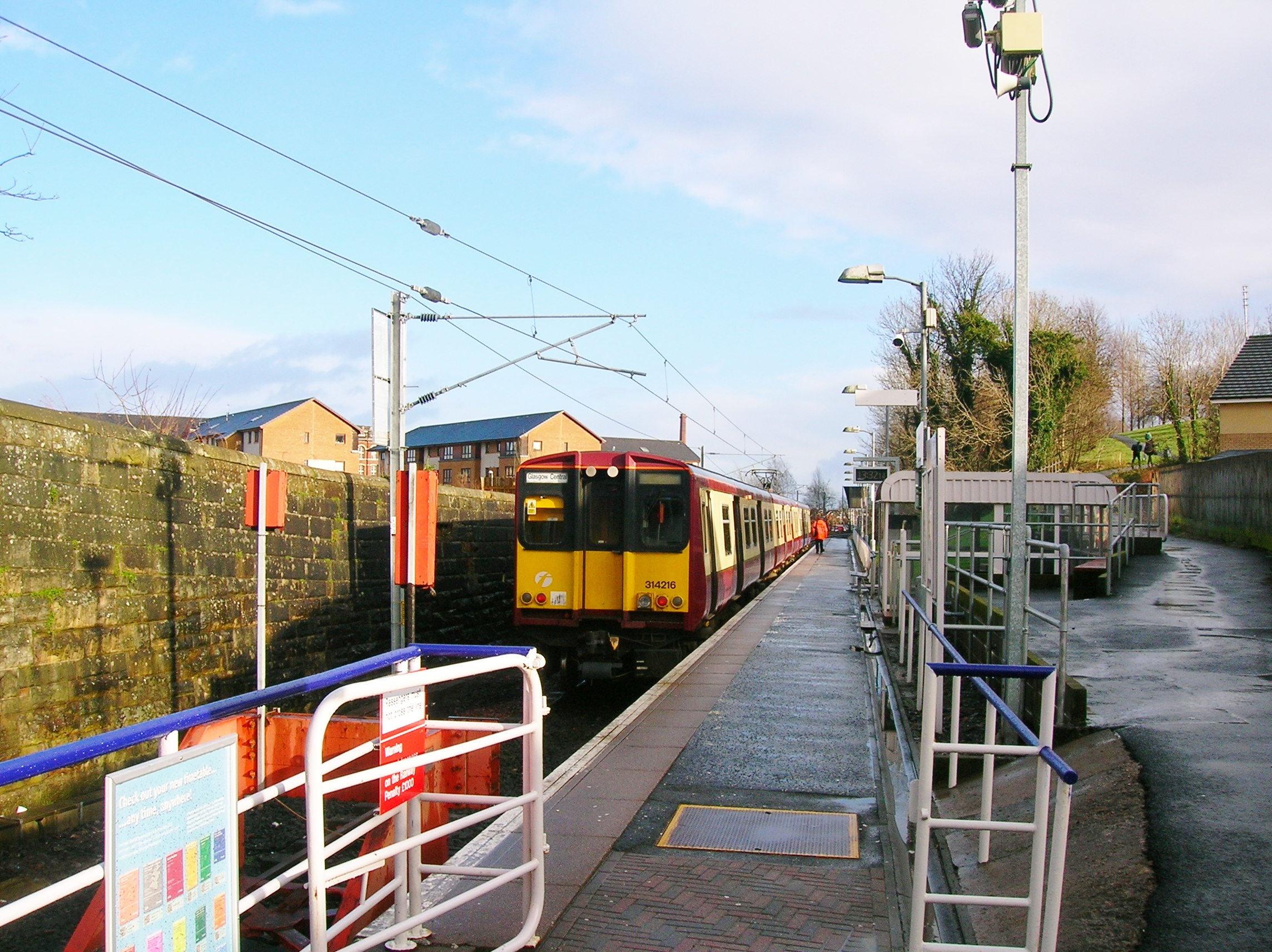 Paisley Canal railway station following electrification, Scotland.